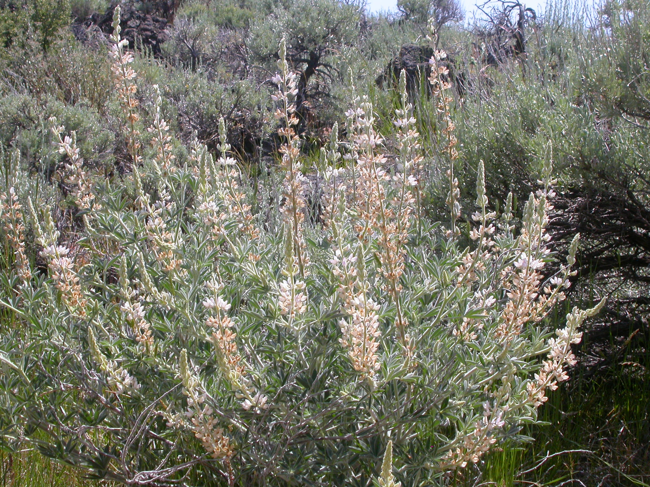 An often robust perennial herb of moderately disturbed settings.